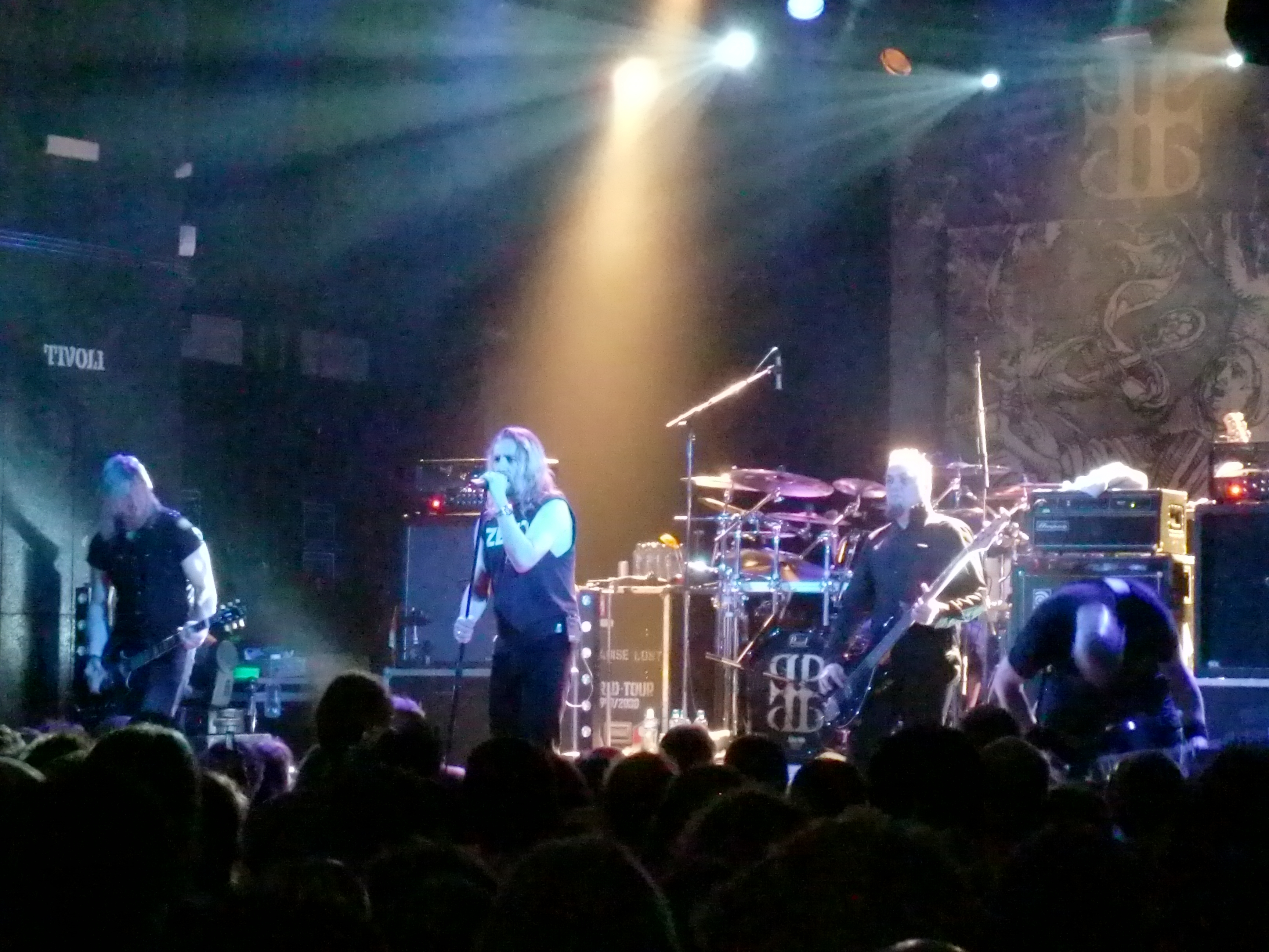 Paradise Lost gig at Tivoli (Oudegracht, Utrecht, Netherlands), 10 November 2009.